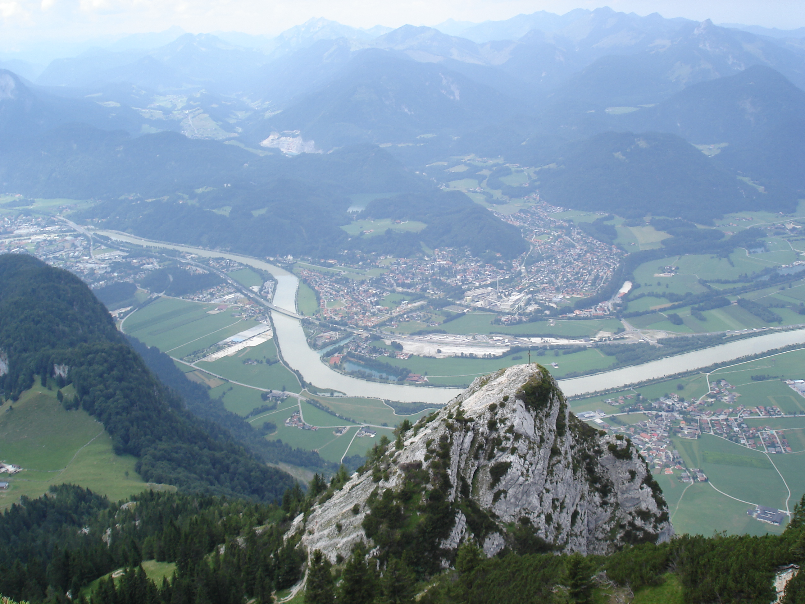 Naunspitze high above Inntal, from Petersköpfl. Settlements f.l.t.r.; Kufstein (AT), Kiefersfelden (DE), Oberndorf (AT)